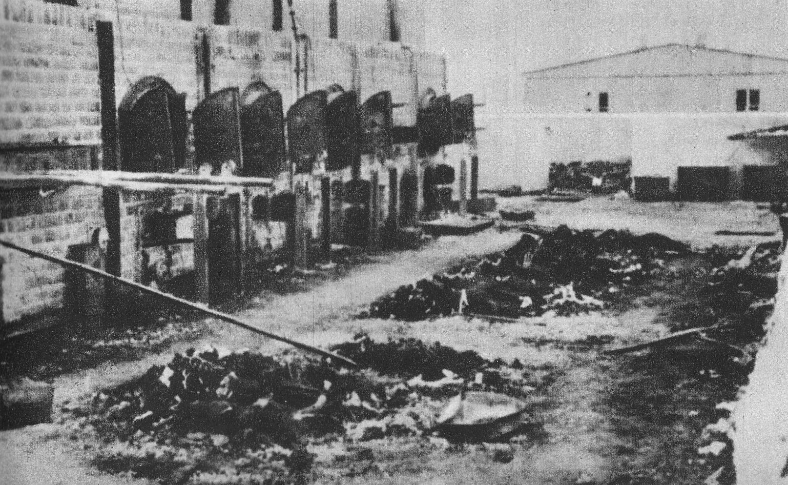 Crematory at Majdanek after liberation by the Soviet Army